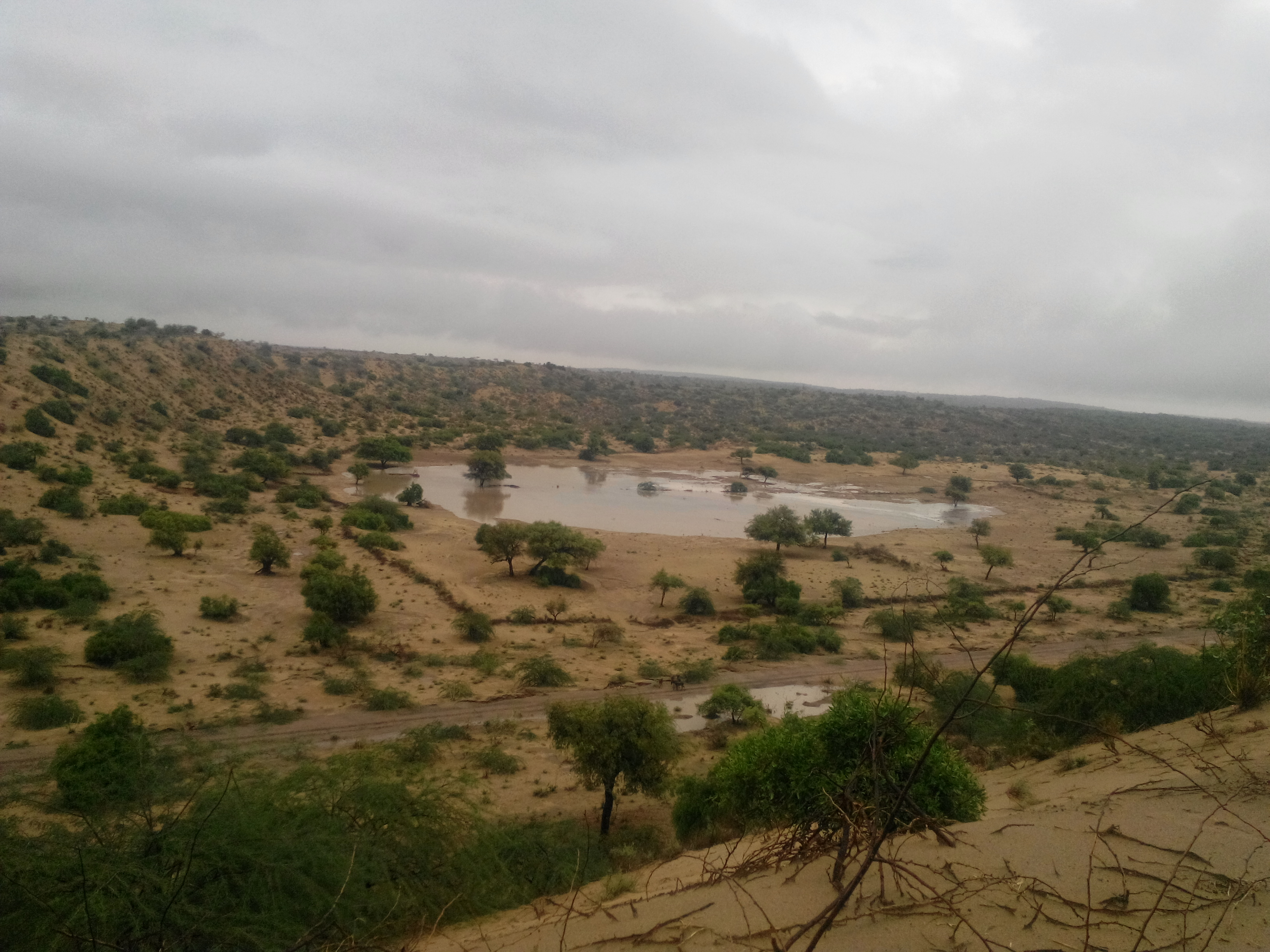 LAYAKHARO This is a photo of a monument in Pakistan identified as the SD-30